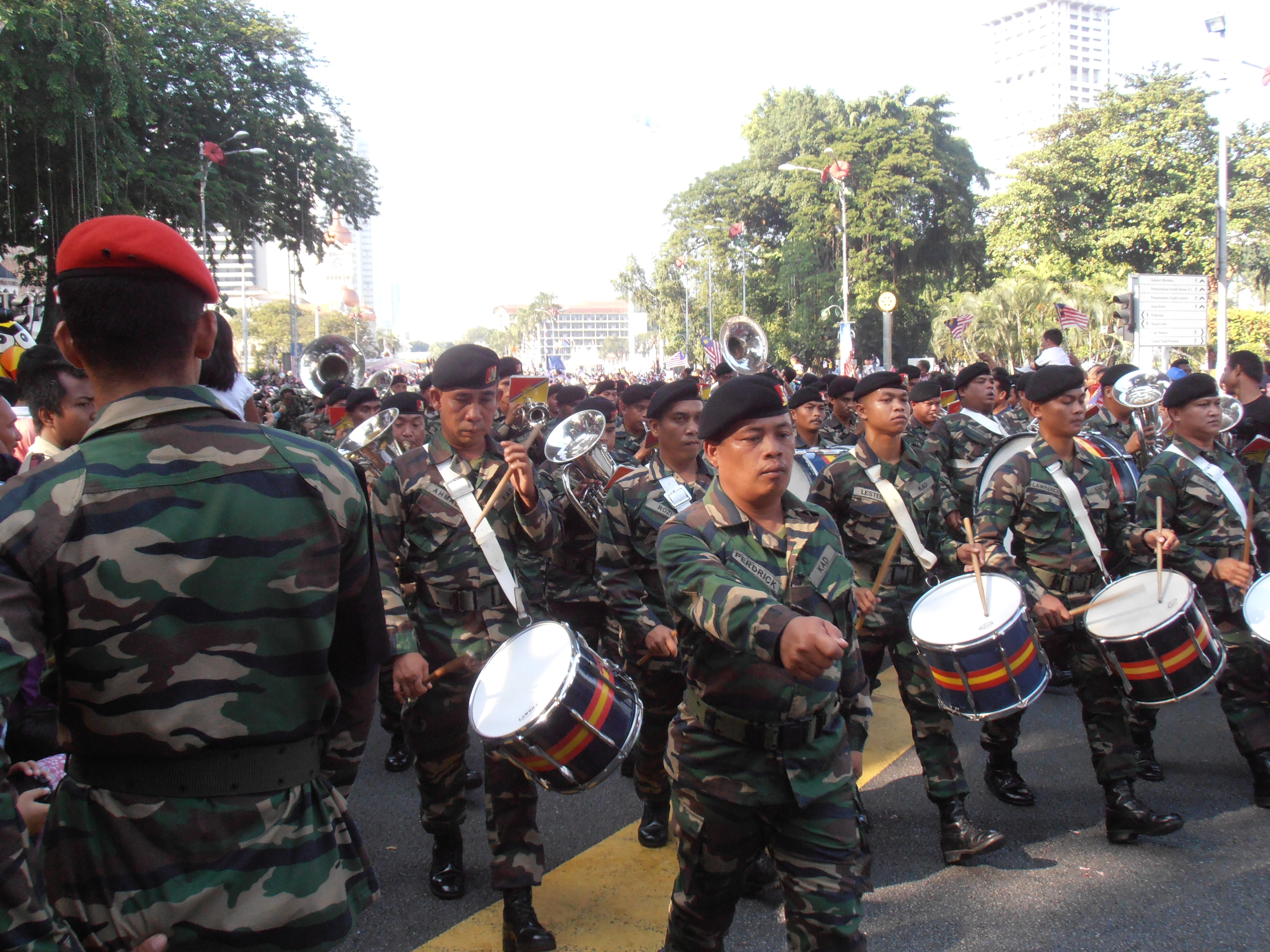 The detachment of Malaysian Army Music Bands on parade during the 55th National Day Parade of Malaysia at Merdeka Square, Kuala Lumpur.